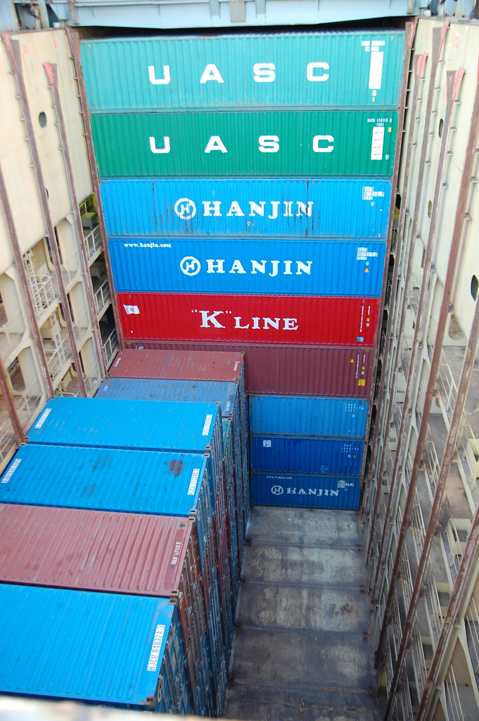 090320.005.Hamburg.Port.Loading